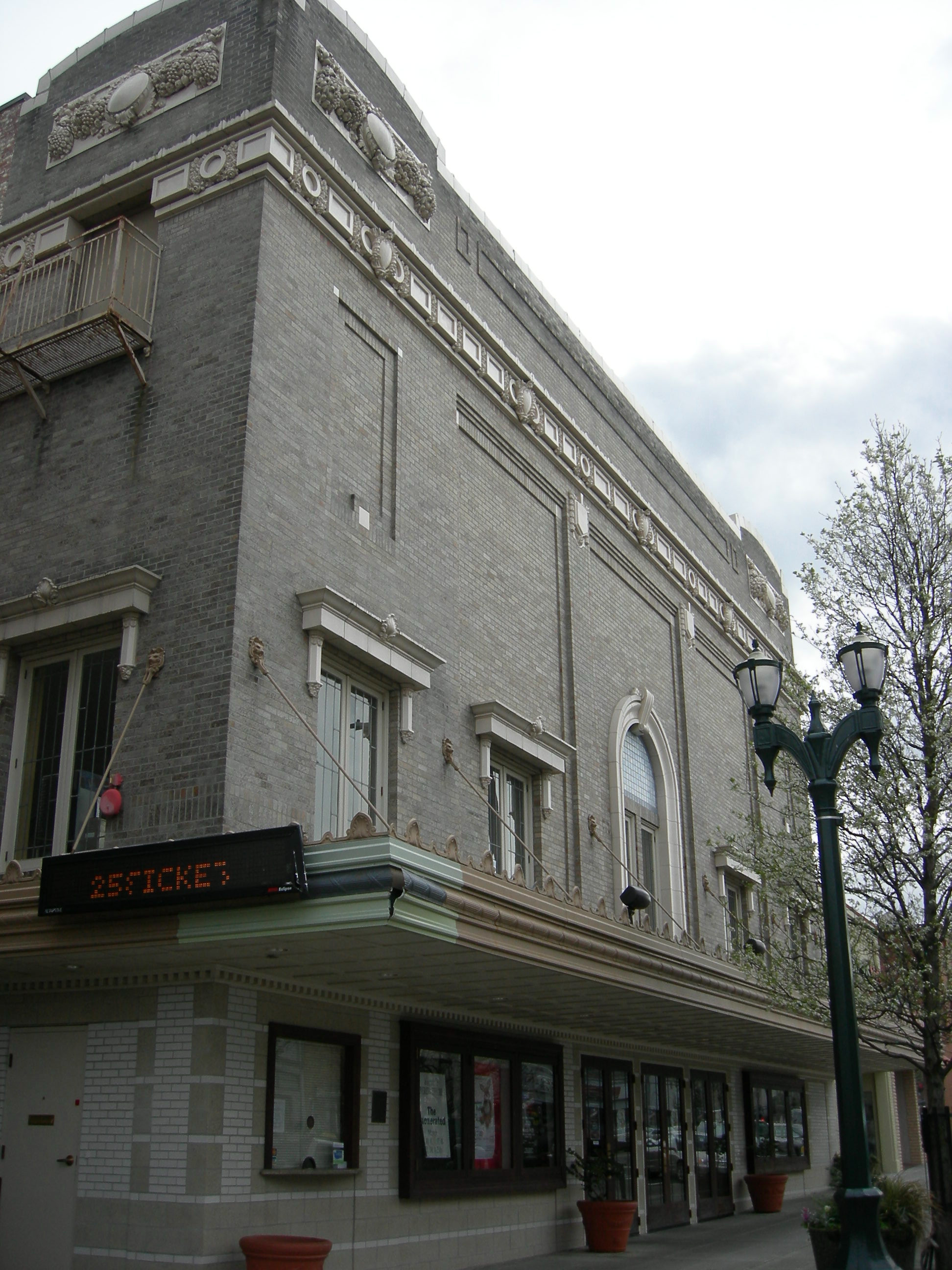 Everett Theatre, Everett, Washington. (Exterior.) Opened 1901 as an opera house; gutted by fire 1923, rebuilt 1924; remodeled 1952 and 1979 (the latter as a triplex movie theater), empty after 1989, reopened in the late 1990s. [1] [2]